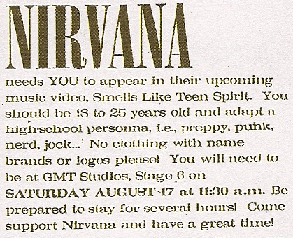 Part of the casting calls handed out by Nirvana a few days before the shoot of "Smells Like Teen Spirit" (due to copyright reason the flyer has been cropped).